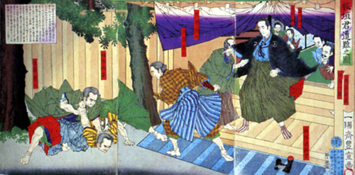 Taisuke Itagaki attacked by thug